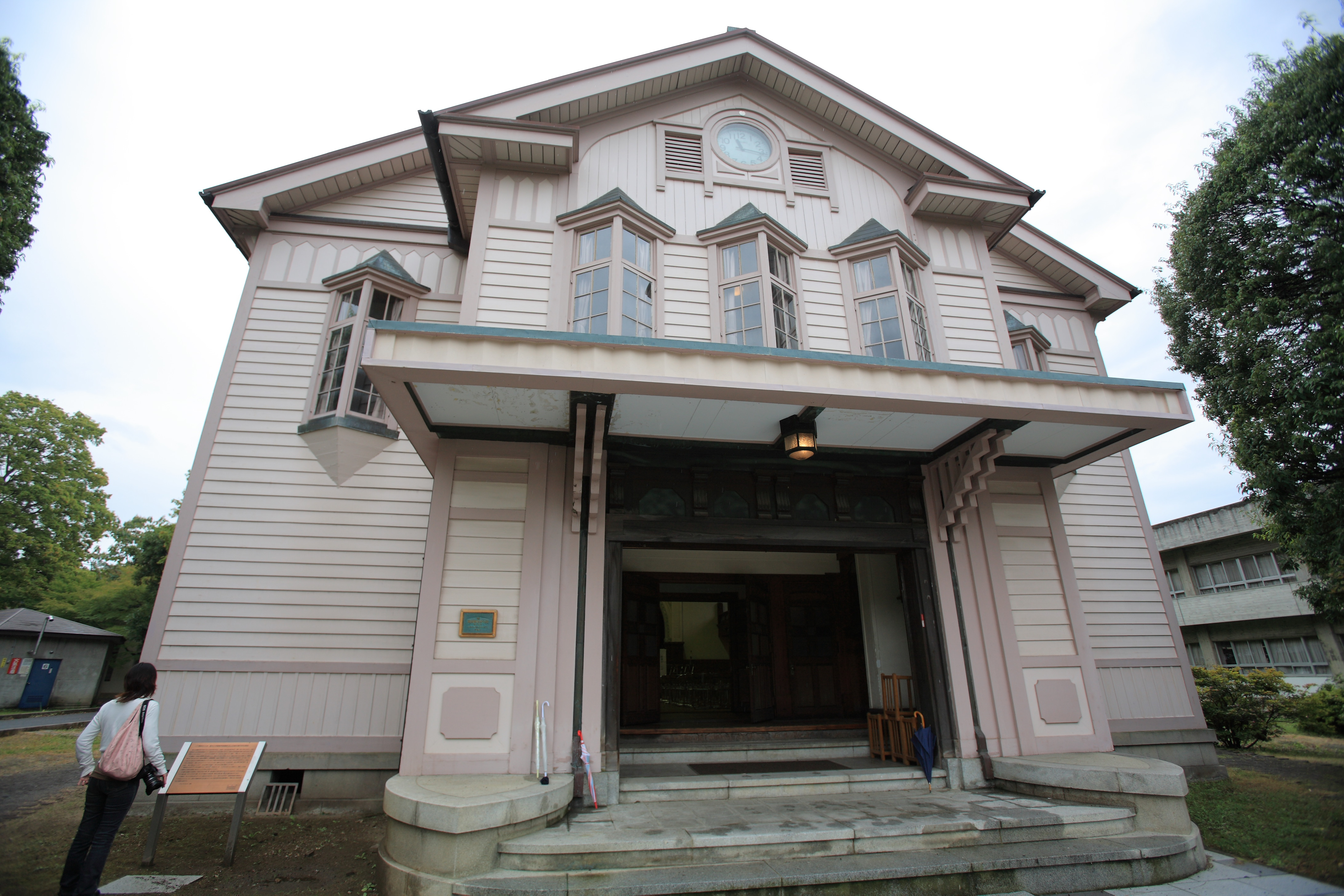 Shinshu university, Ueda Campus, Auditorium. Cultural property. Construction 1929.